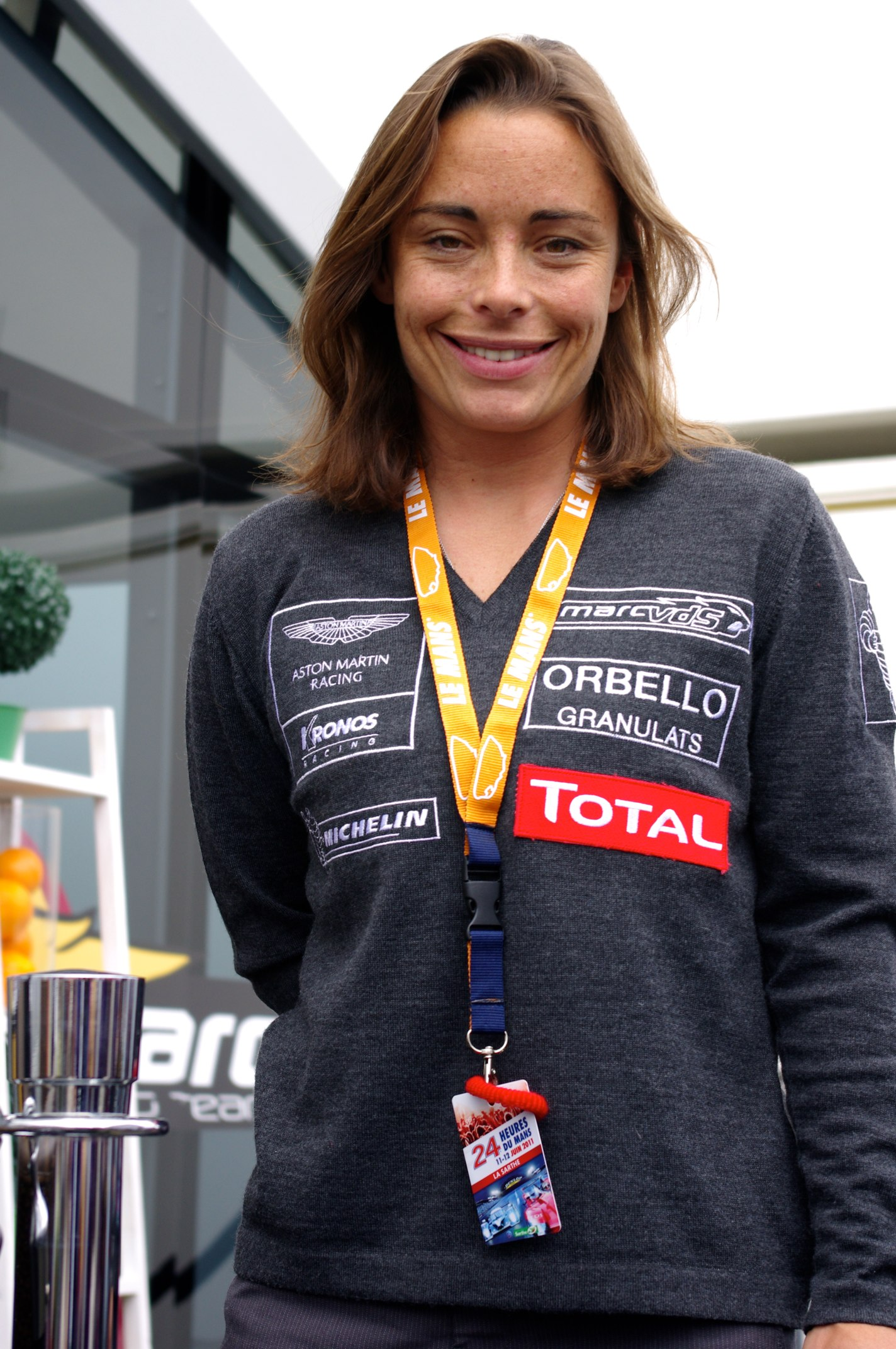 Vanina Ickxat the 2011 Le Mans 24 Hours